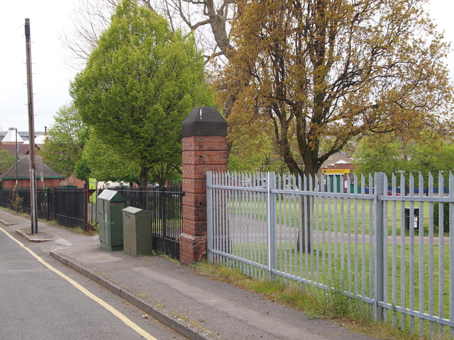 Nottingham - NG3 (Sneinton)